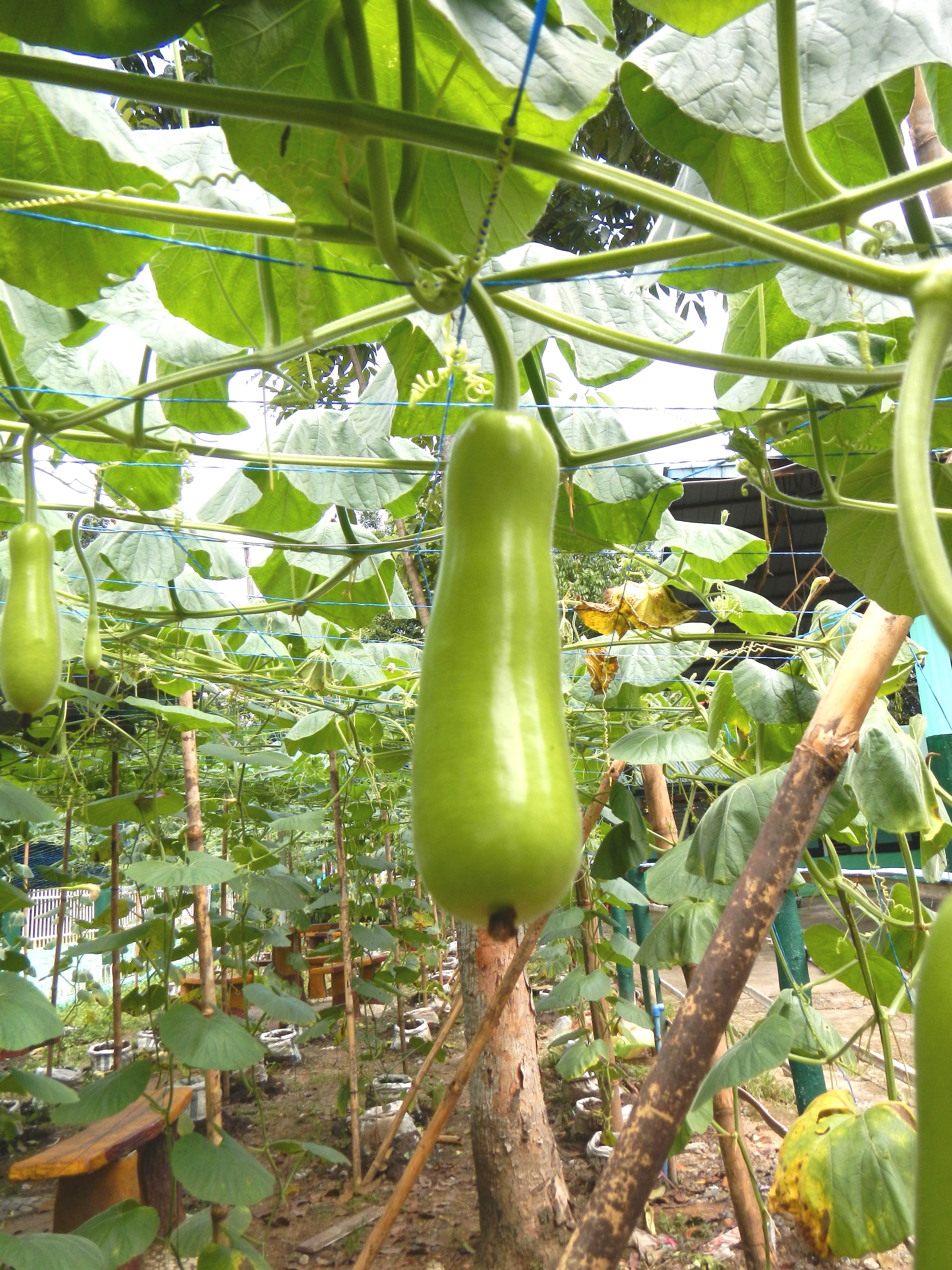 Calabash bottle gourd, Lagenaria siceraria synonym Lagenaria vulgaris Ser., also known as opo squash, or long melon, in Elementary School of San Rafael, Bulacan Barangay Pasong Bangkal, San Rafael, Bulacan - Landscapes, scenery, greens upon the blue and white sunny burning sun-sky, Vegetable fields, Paddy fields in Bulacan, - accessed from Baliuag-San Rafael, Bulacan, Interior Provincial and Barrio Roads and from Pan-Philippine Highway or Daang Maharlika in Cagayan Valley Road.